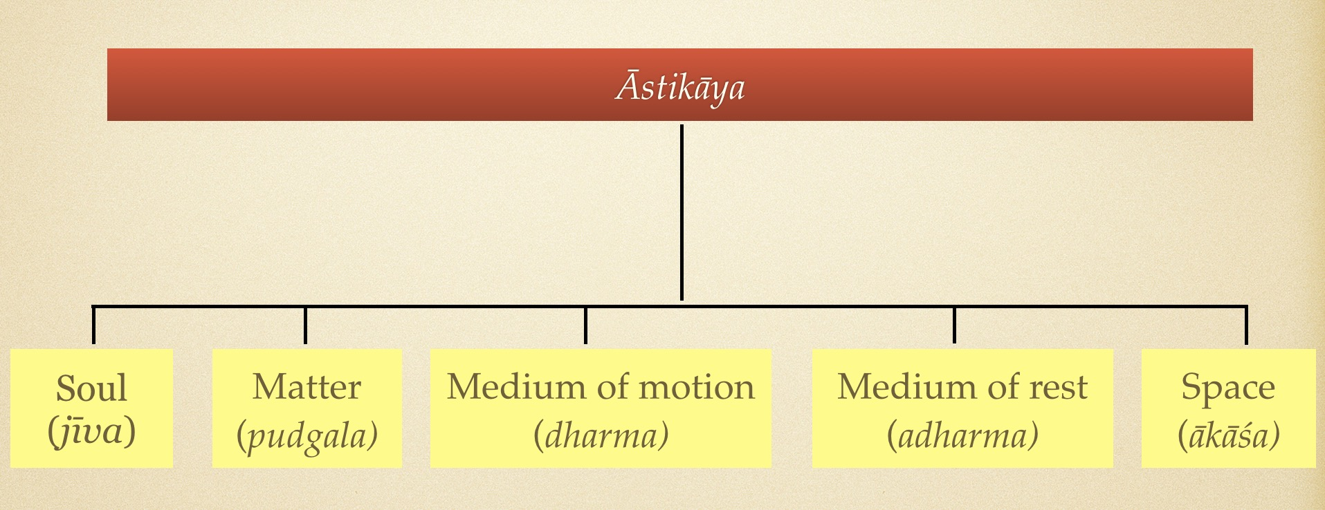 Pañca āstikāya Five substances that have both characteristics: (1) Existence and (2) Body